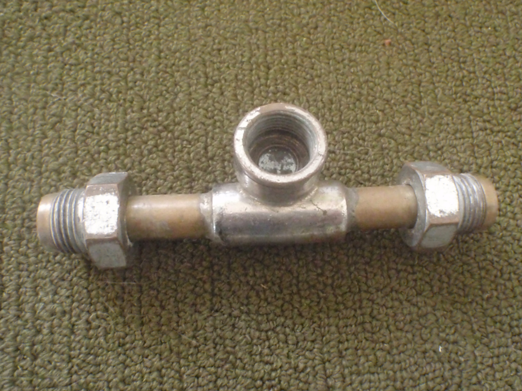 Draeger 200 bar twin cylinder manifold with DIN connections for 170mm diameter cylinders